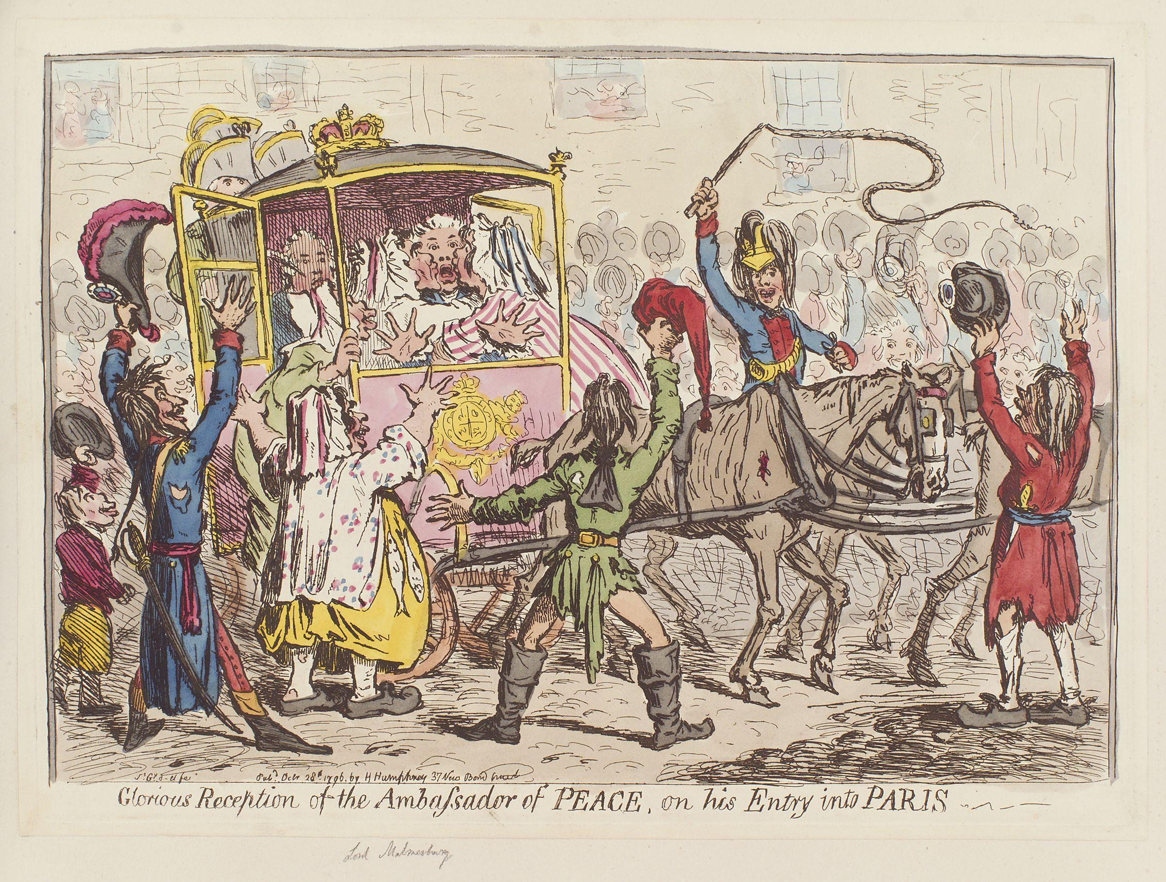 Glorious reception of the Ambassador of Peace, on his entry into Paris - ' (James Harris, 1st Earl of Malmesbury), by James Gillray (died 1815), published 1796. All images in this batch have been confirmed as author died before 1939 according to the official death date listed by the NPG.